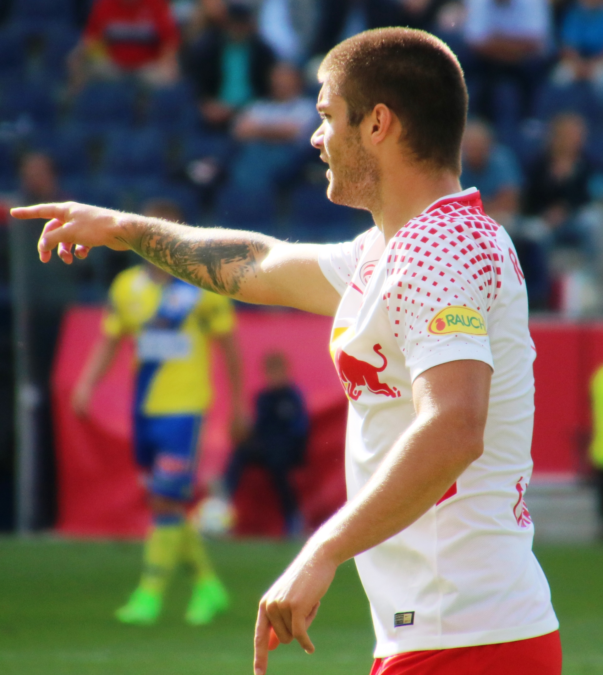 league match Austria Bundesliga